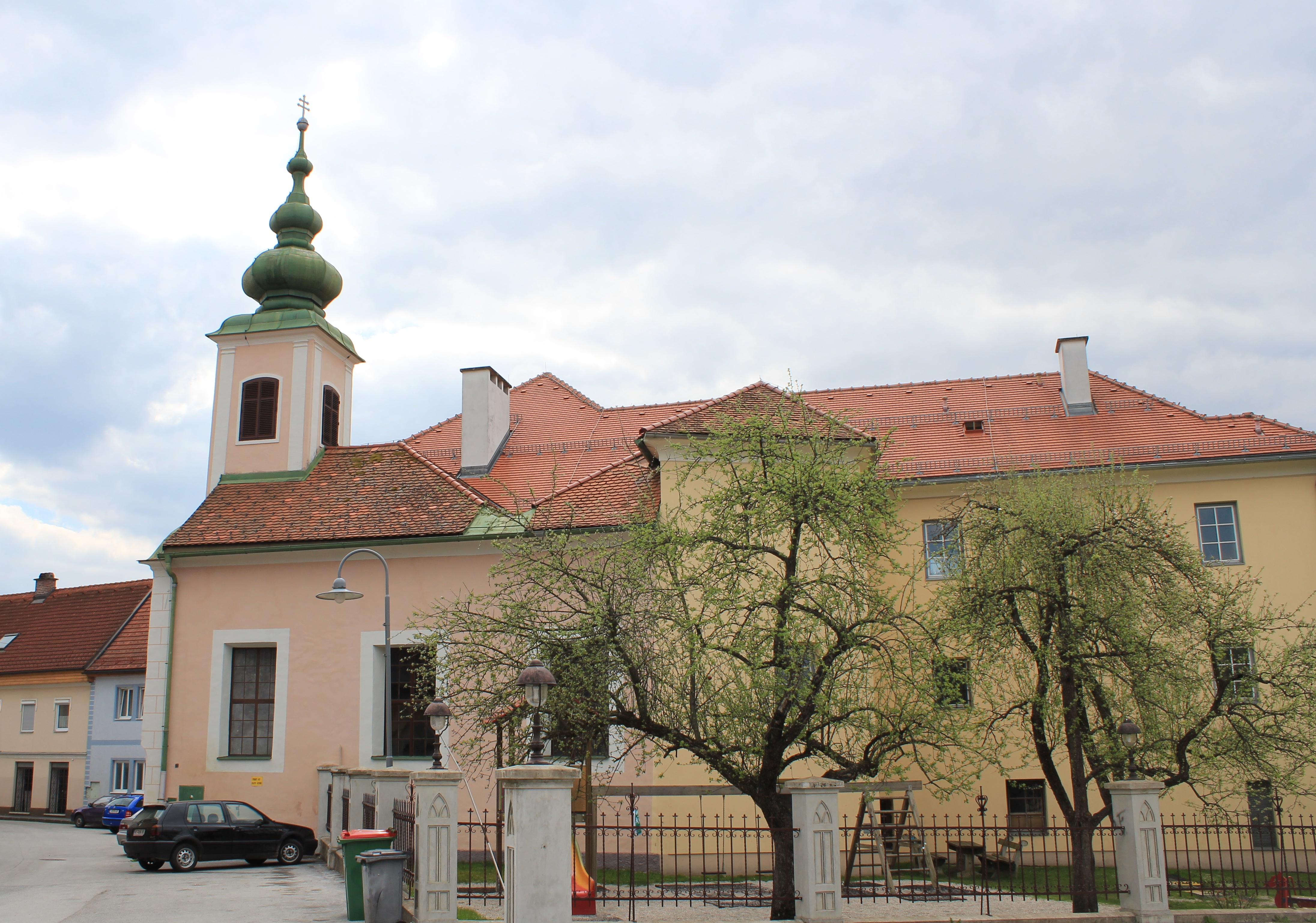 Saint Erasmus in Bleiburg